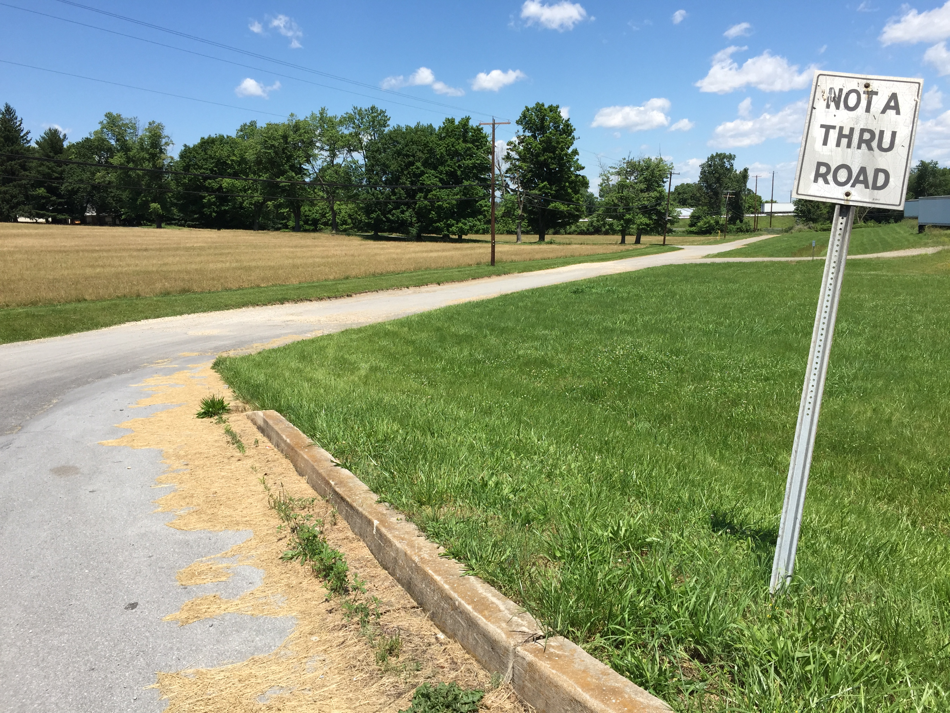 View north along Maryland State Route 843 (Artizan Street) at Maryland State Route 63 (Spielman Road) in Williamsport Station, Washington County, Maryland